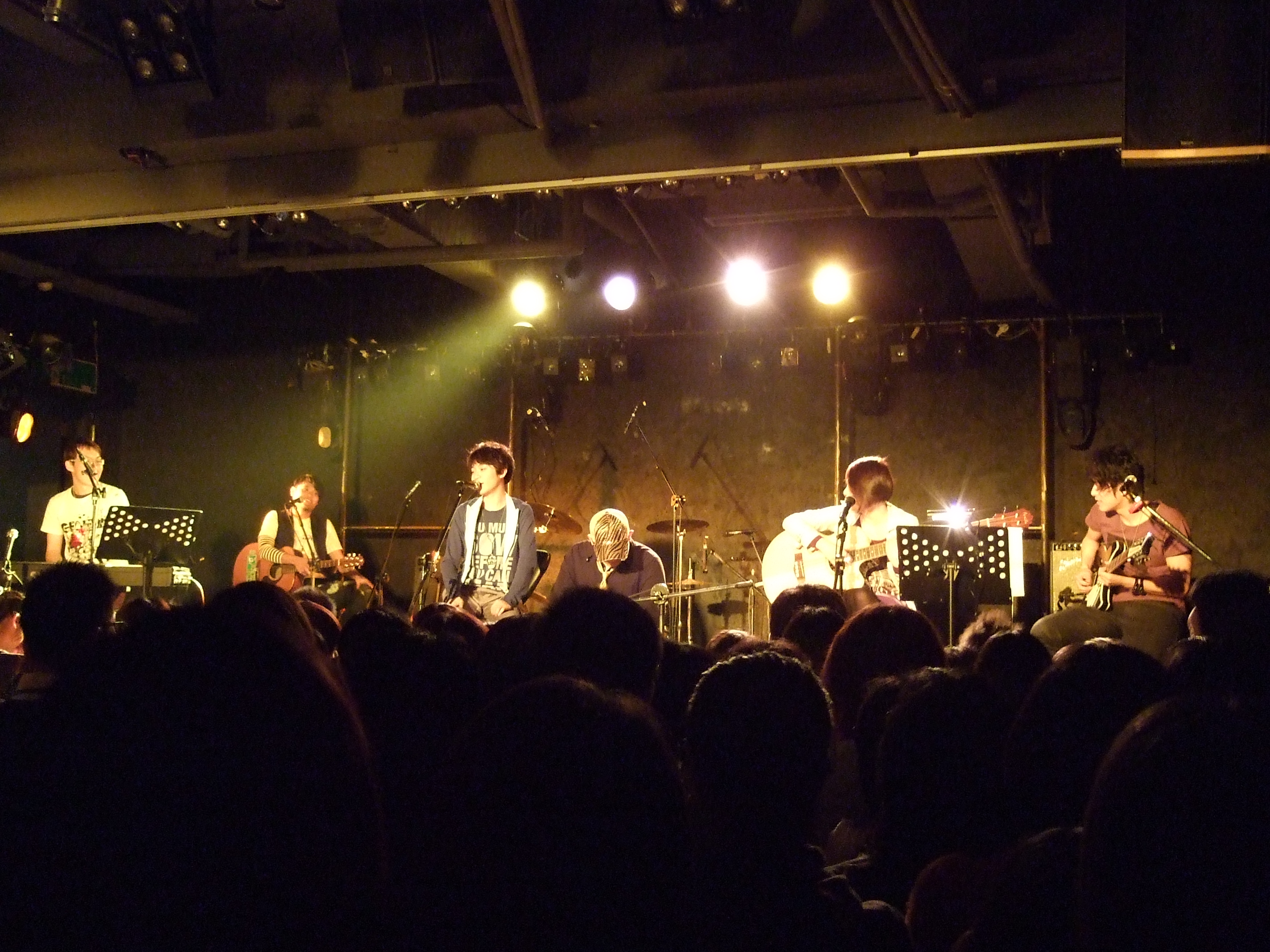 Sodagreen performs at The Wall in Taipei.